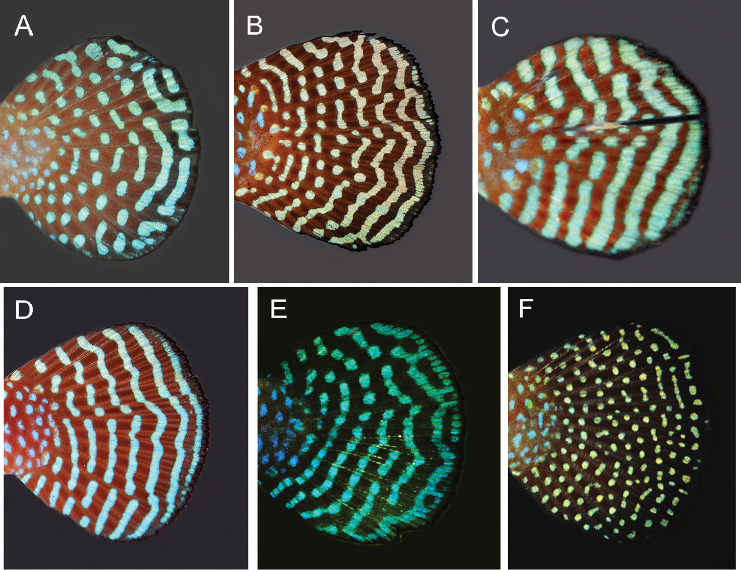 Caudal fin of live males of the Hypsolebias magnificus species complex. A H. harmonicus, holotype, UFRJ 6696, 29.4 mm SL B H. gardneri sp. n., paratype, UFRJ 6797, 34.4 mm SL C H. hamadryades Costa sp. n., paratype, UFRJ 6895, 24.8 mm SL D H. magnificus, specimen from Gado Bravo, UFRJ 4959, 31.2 mm SL E H. magnificus, topotype not preserved, about 25 mm SL F H. picturatus. Paratype, UFRJ 5053, 38.6 mm SL.